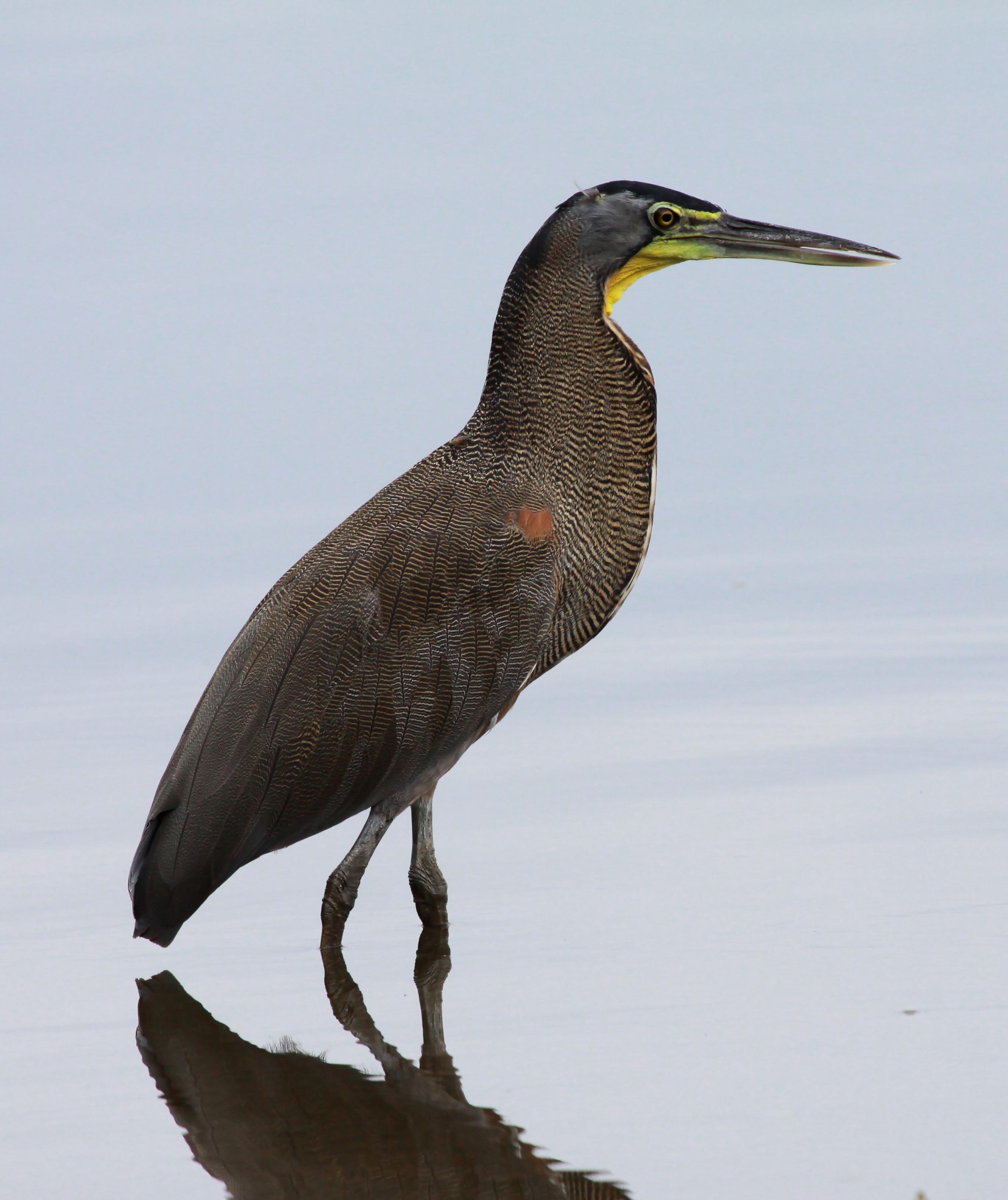 Bare-throated Tiger Heron (Tigrisoma mexicanum).